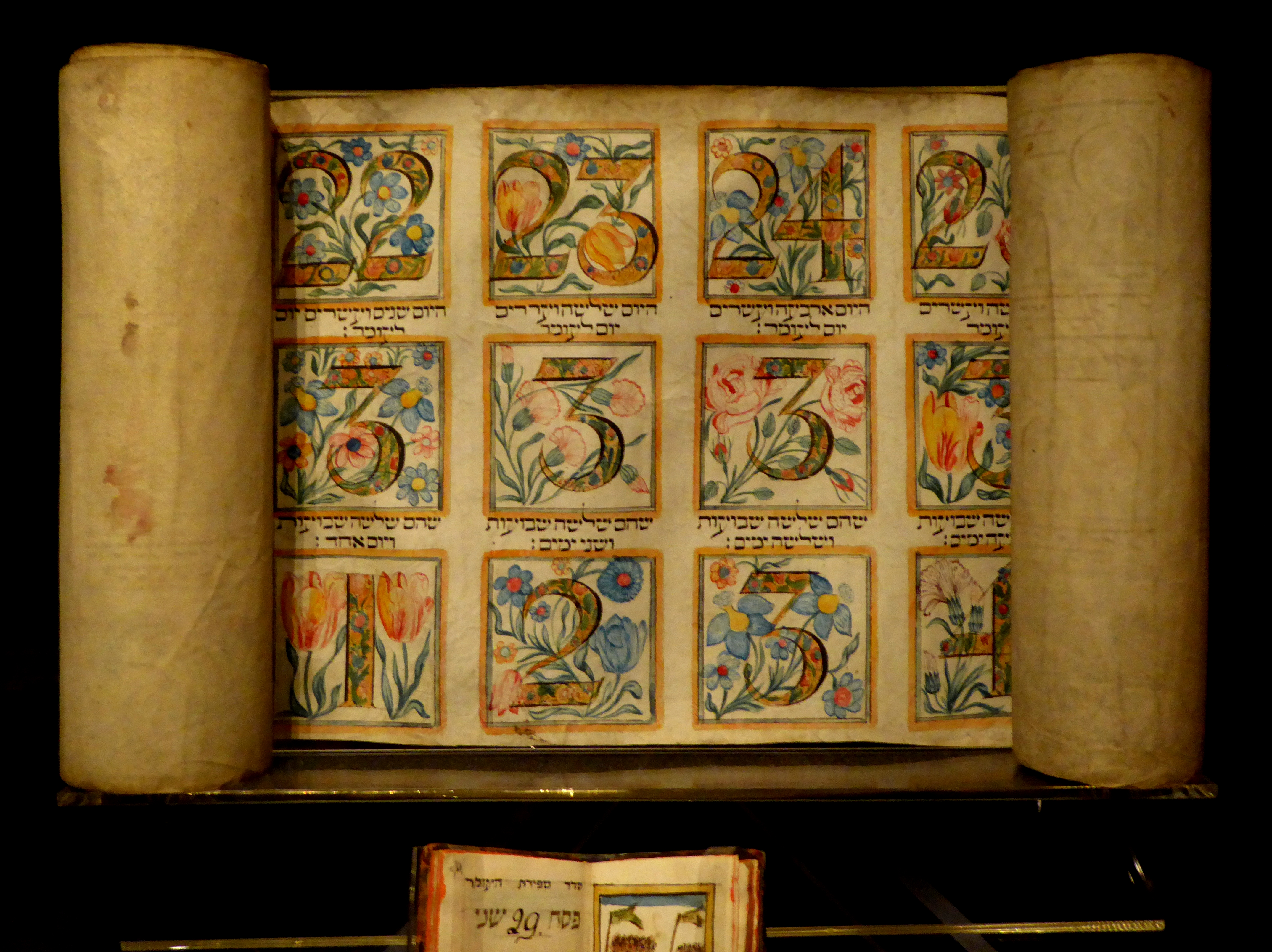 An Omer Calendar from Italy, produced in 1804. On display at the Jewish Museum London (JM 633).